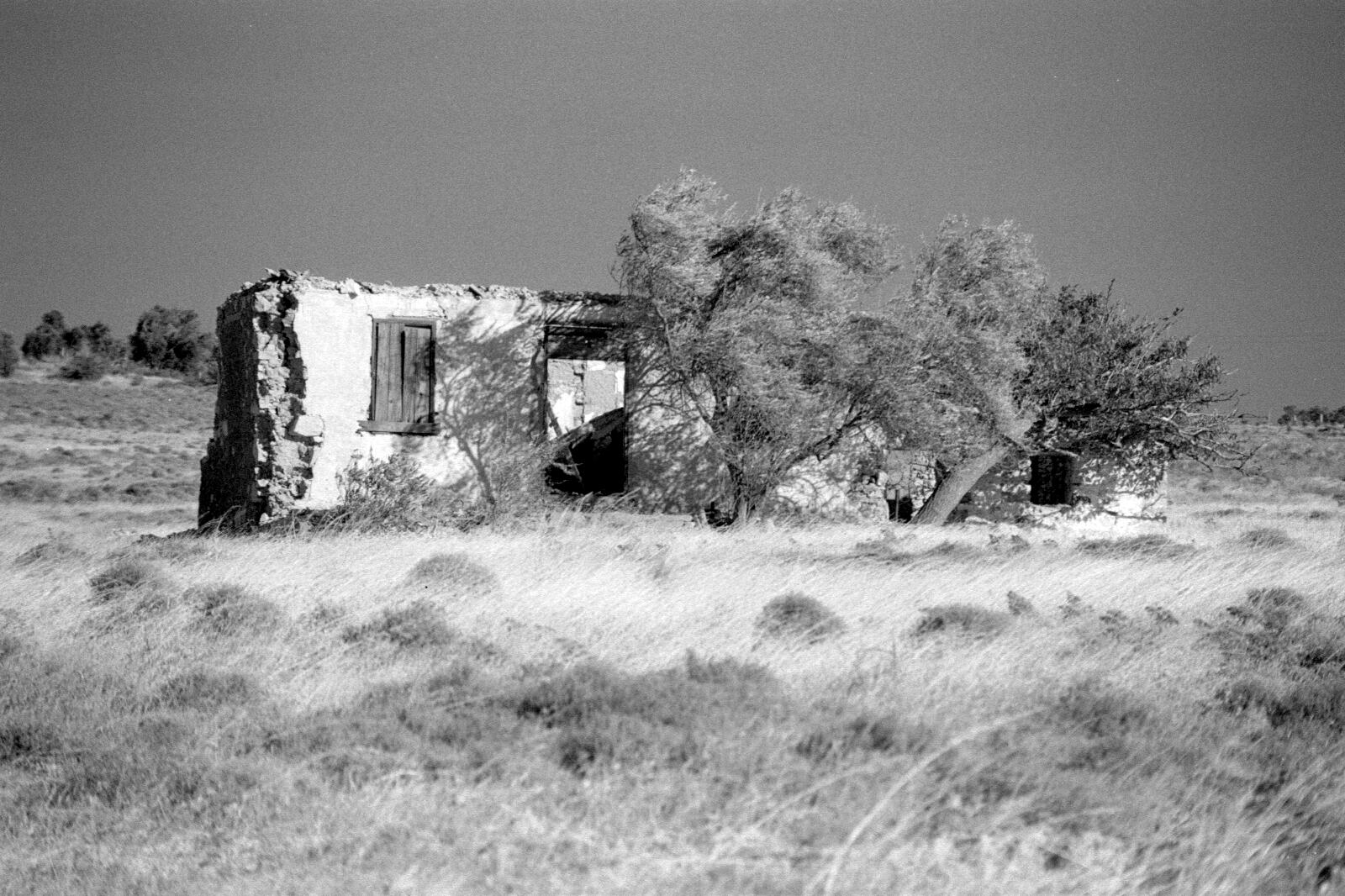 Bozcaada, Turkey Taken with Ilford SFX 200 35mm film